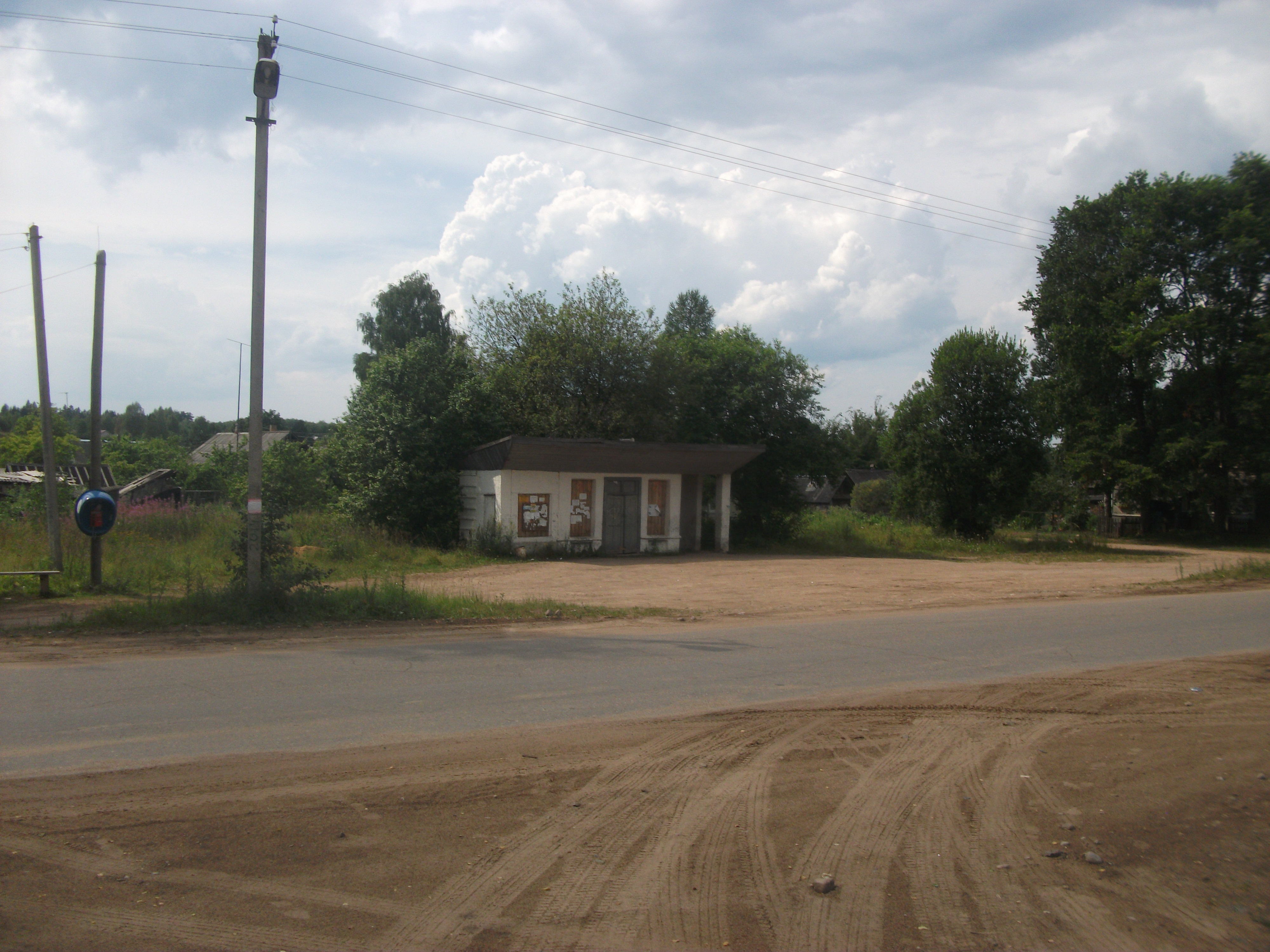 Lyady, bus stop